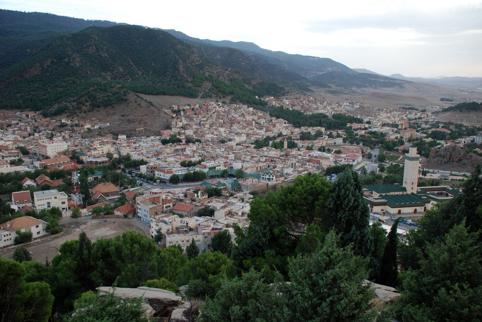 Azrou, Morocco, from hill to southwest